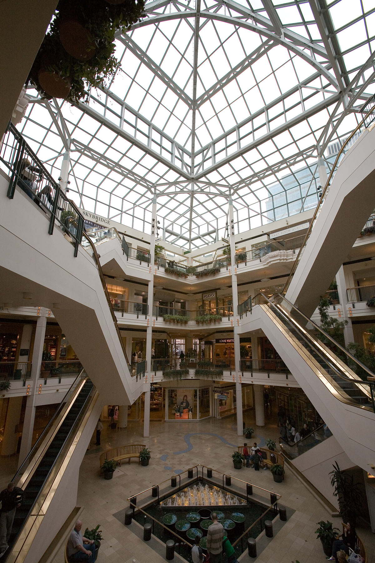 The inside of Pioneer Place Mall in Portland, Oregon.